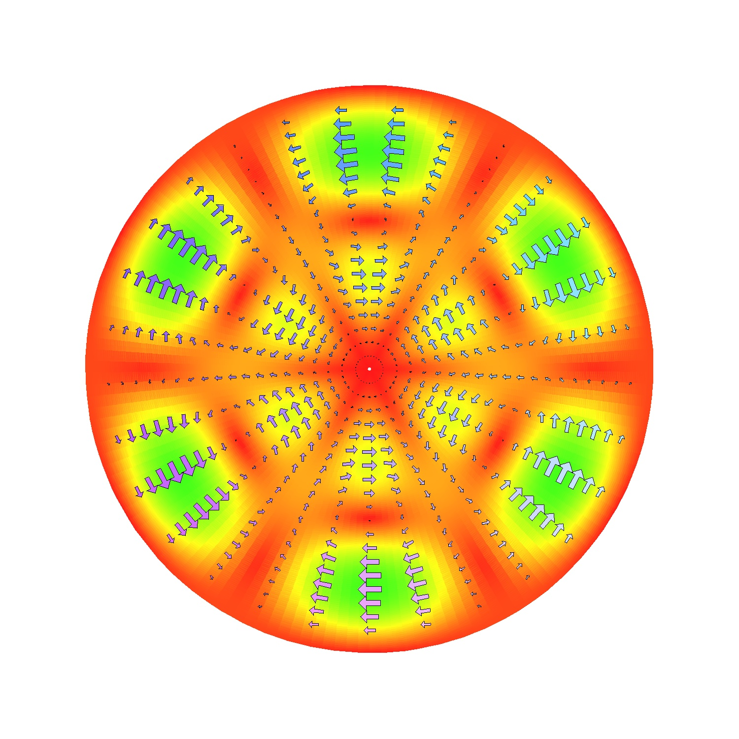 Plot of E and H fields on the TEnl mode defined by n and l.